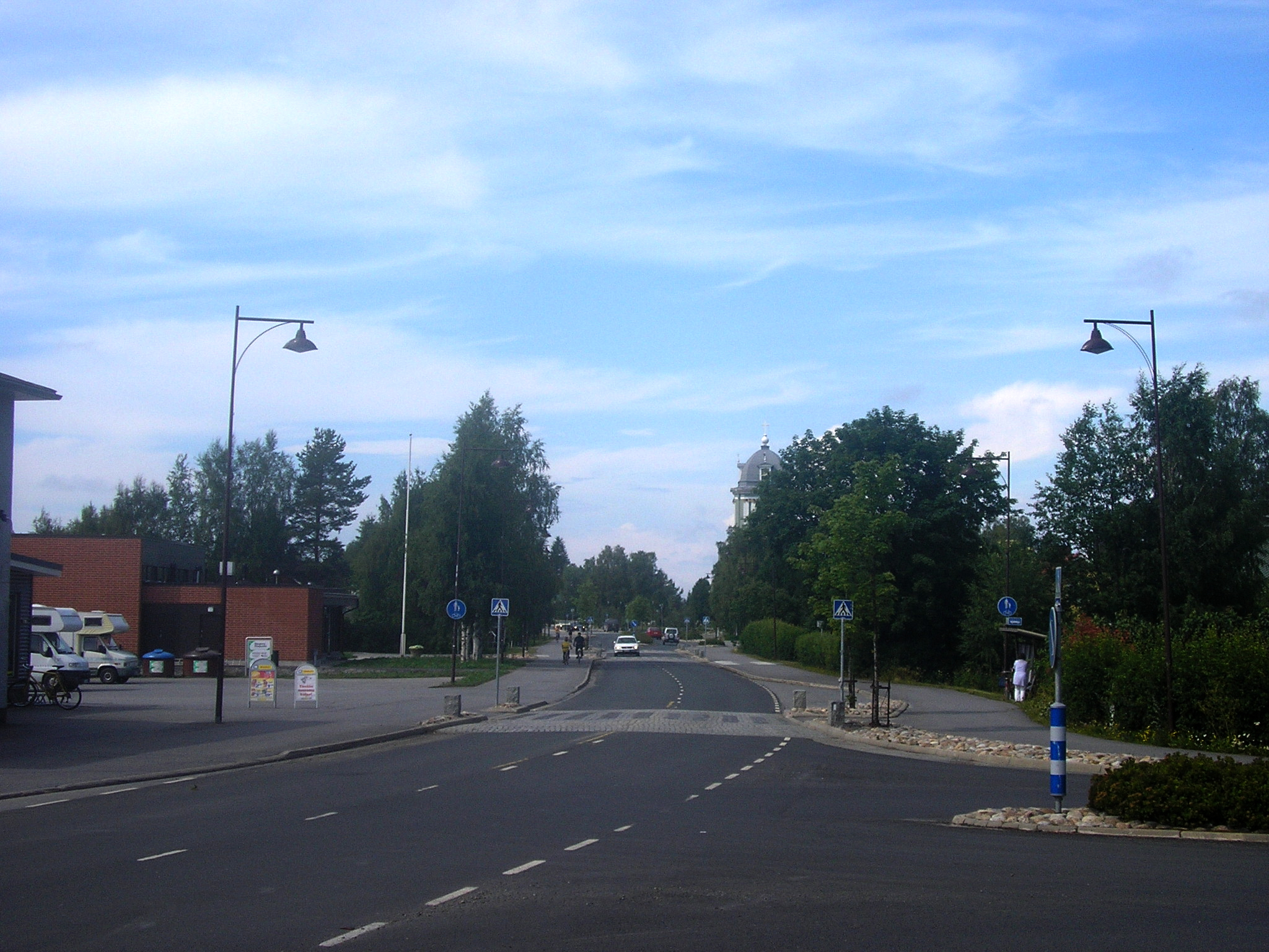 Regional road 757 in Kälviä, Finland, towards Kokkola.